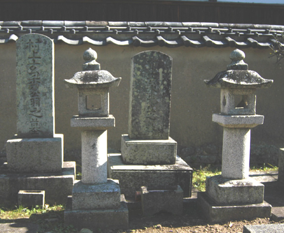 Grave of the Japanese physician and scholar MURAKAMI Gensui (1781-1843) in the Torin Temple, City of Nakatsu (Japan)